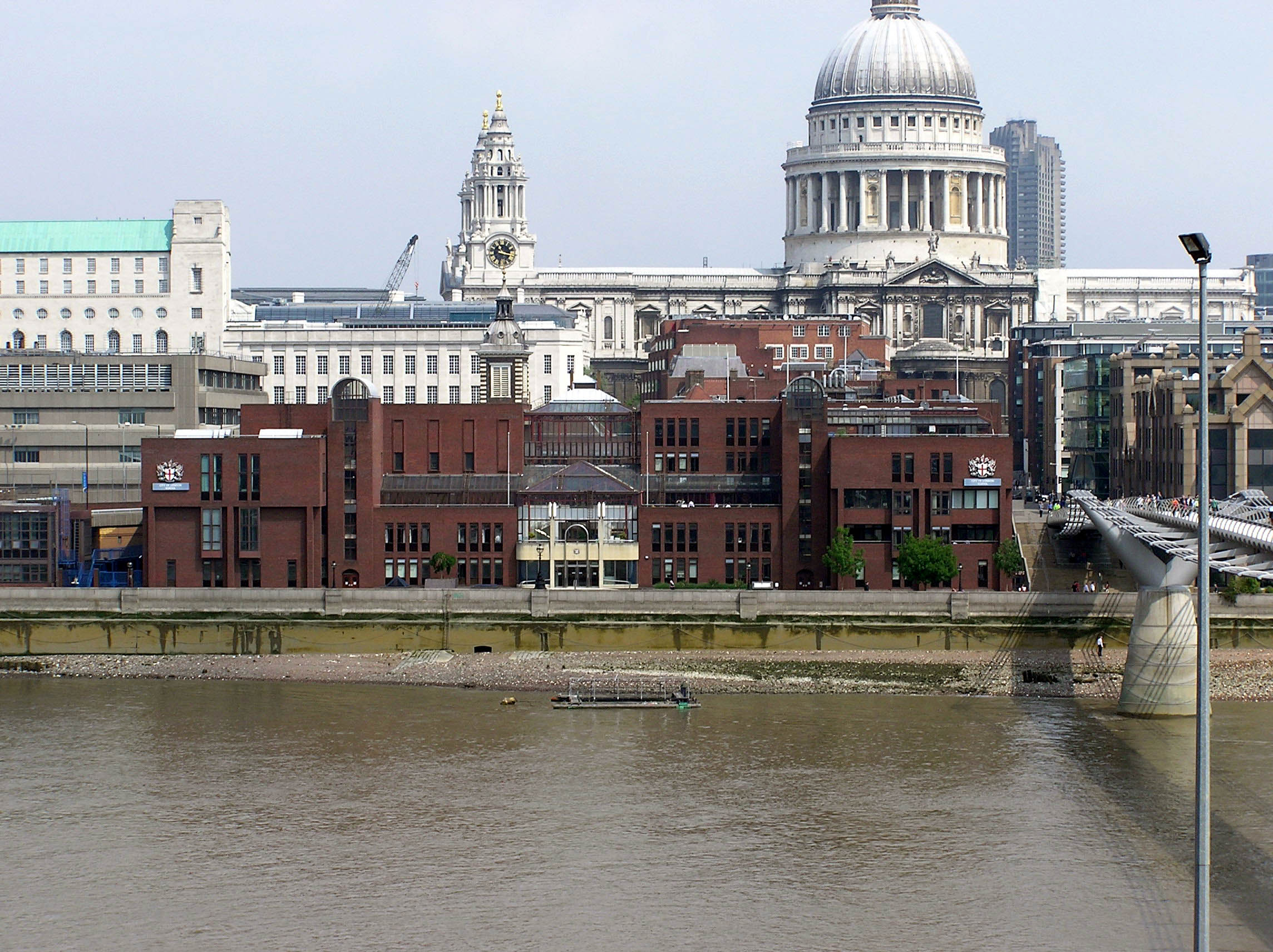 The City of London School beside the River Thames. St. Pauls Cathedral is in the background and the Millennium Bridge is on the right. Photographed by Adrian Pingstone in June 2005 and released to the public domain.